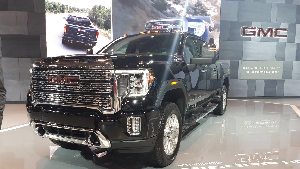 This is the new GMC Sierra HD